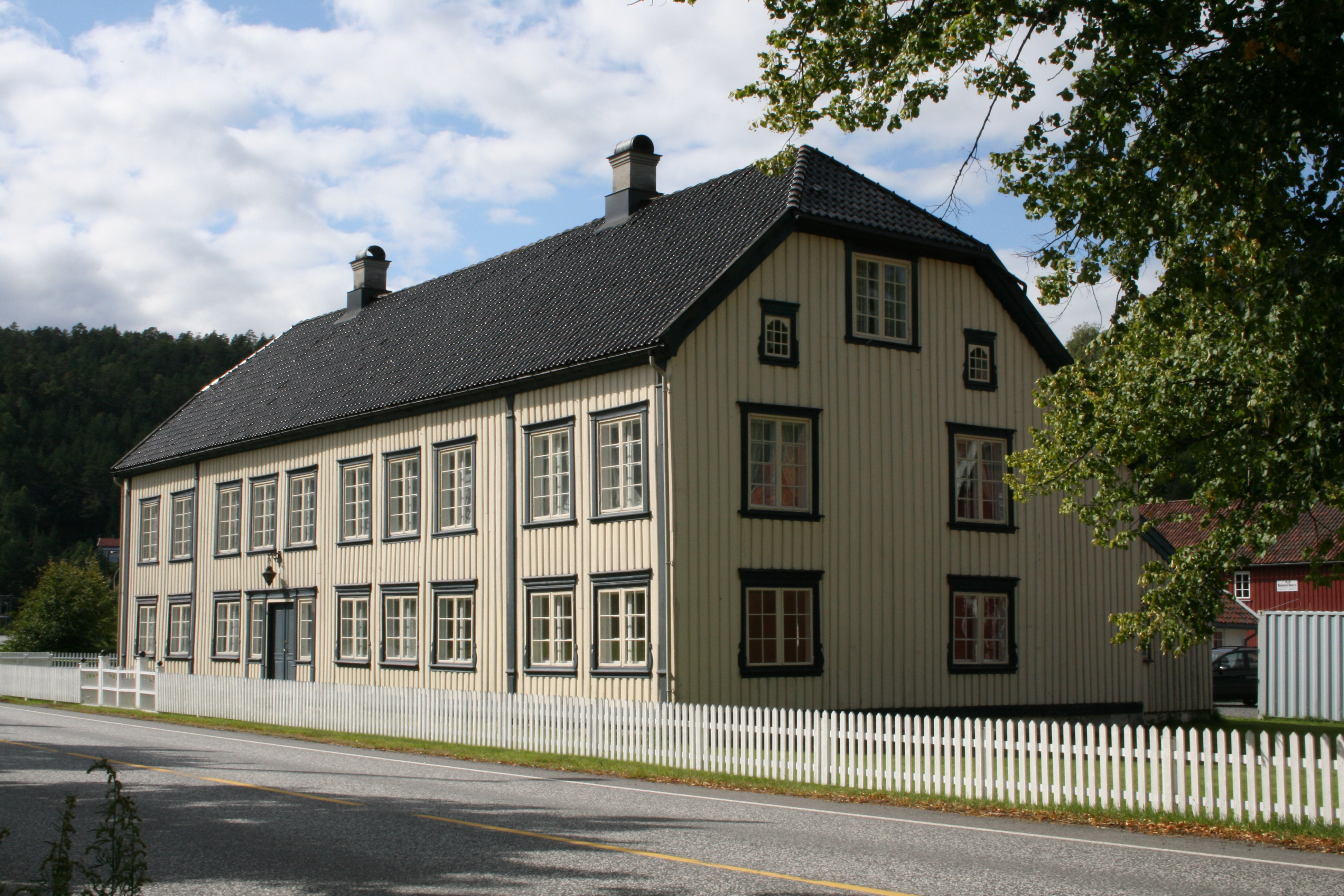 Froland Verk i Aust-Agder